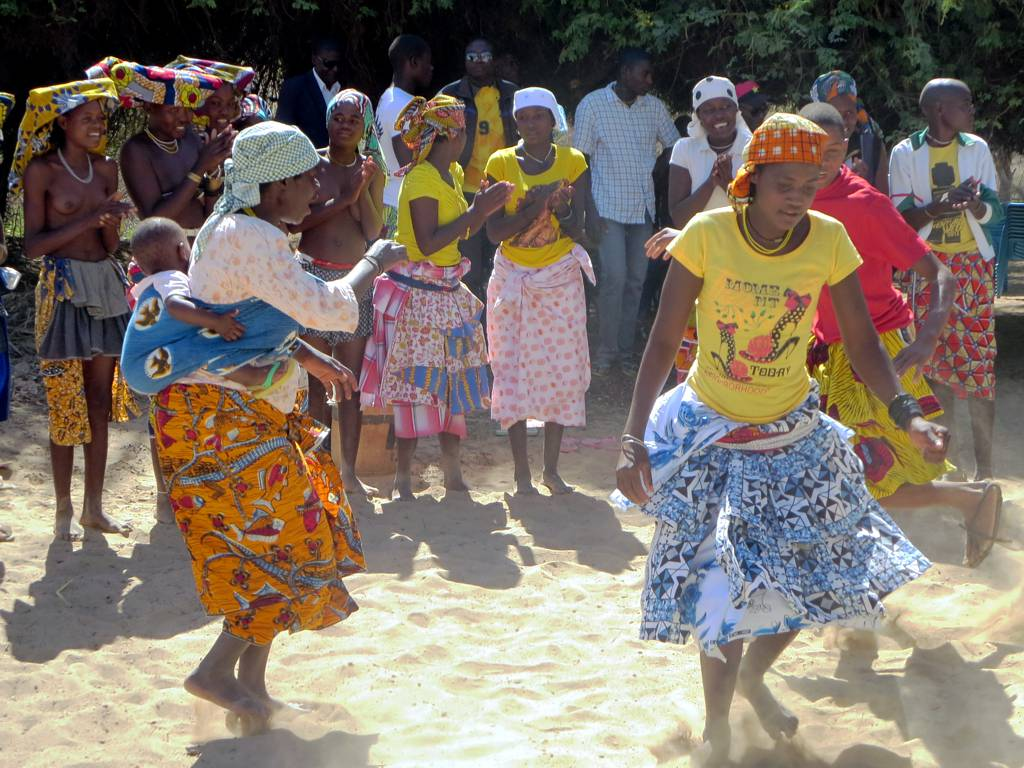 Villagers at The Lost Oasis, south of Namibe, Angola, perform a traditional dance.